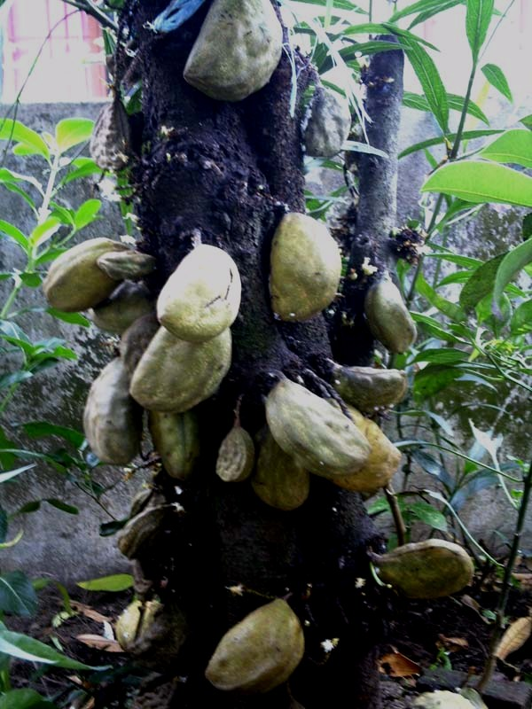 Cynometra cauliflora, Tasikmalaya, West Java, Indonesia